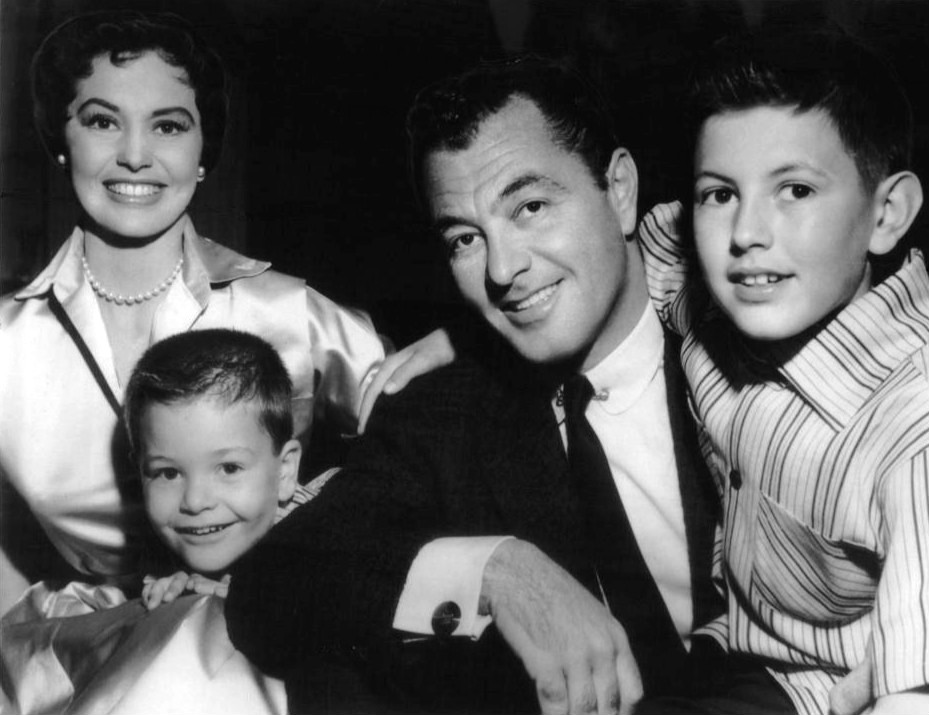 Photo of Cyd Charisse and Tony Martin with their two sons from a Person to Person program in 1956. From left: Cyd Charisse with Tony, Jr. and Tony Martin with Nicky.